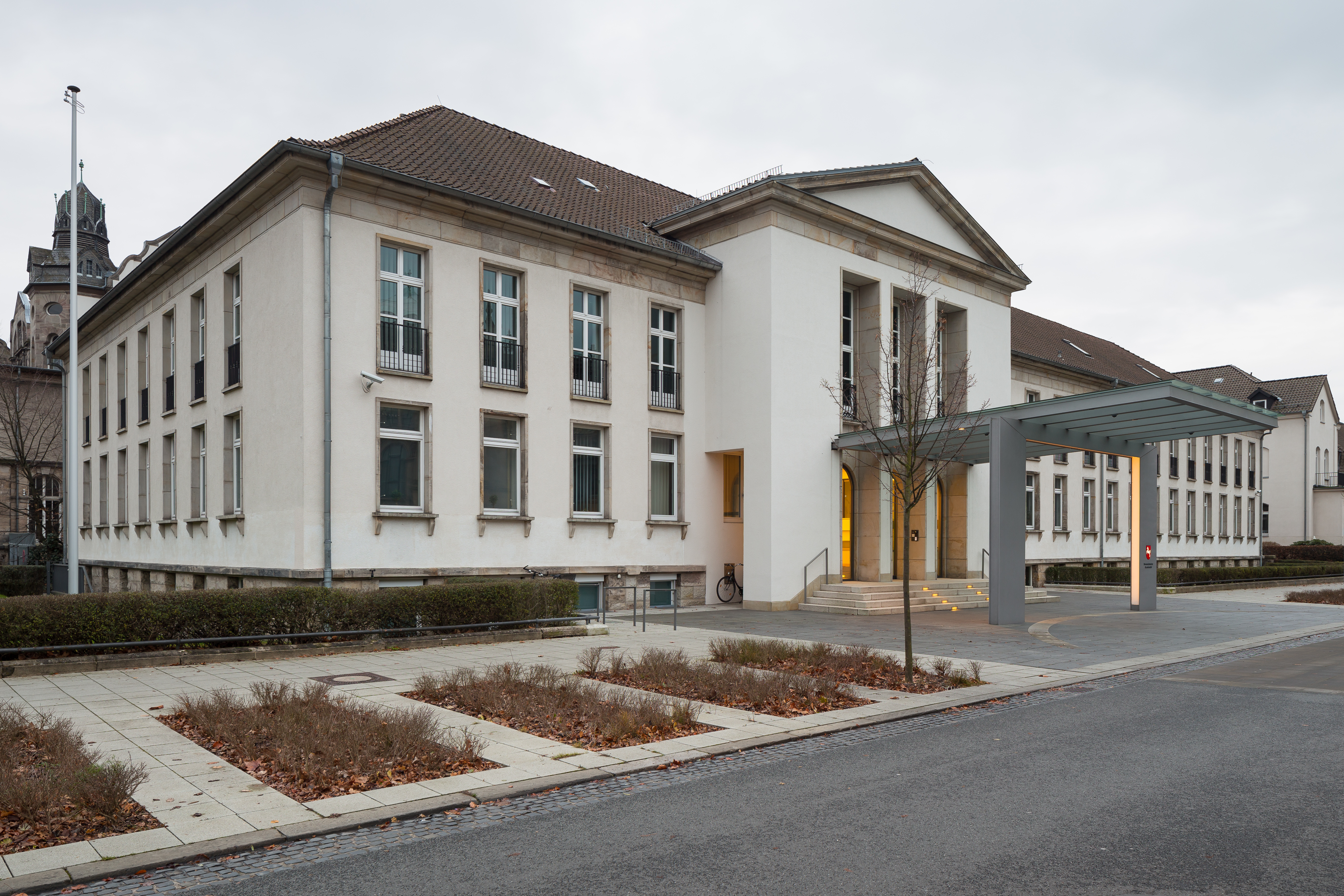 Lower Saxony's state chancellery located at Planckstrasse in Mitte district of Hannover, Germany.